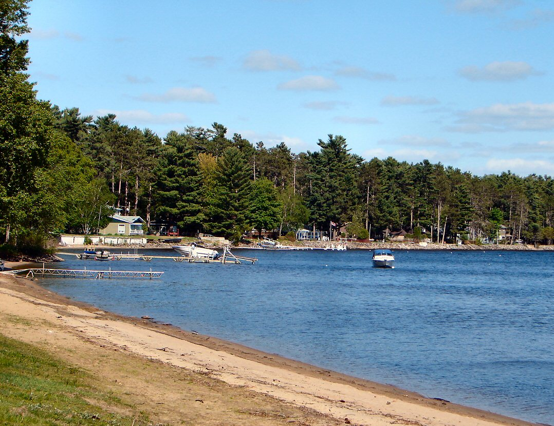 Norway Bay Beach, part of Bristol municipality, Outaouais, Quebec